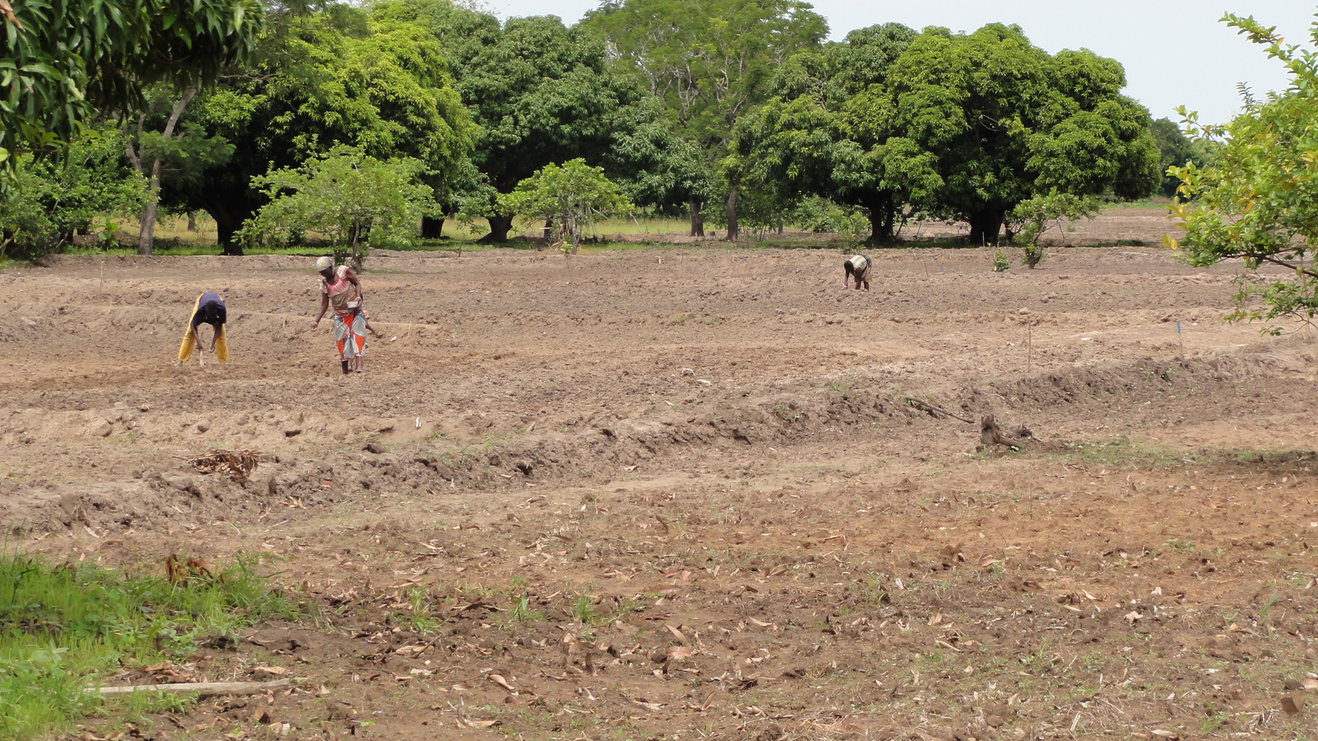 Rice cultivation in Benin